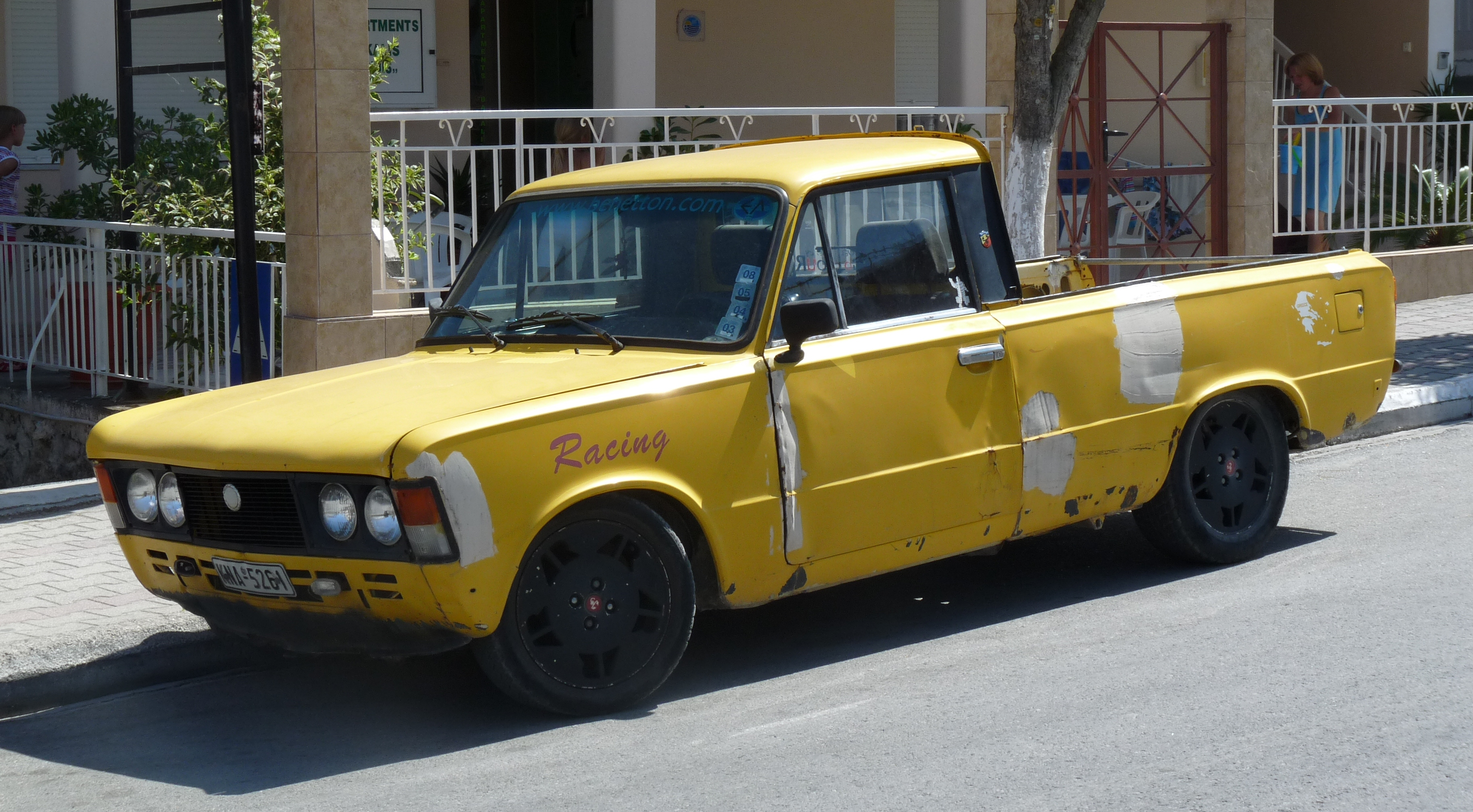 FSO 125p in Leptokarya (Greece)